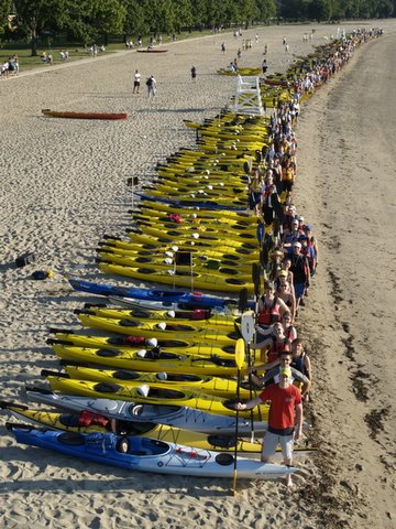 Kayakers line up to launch in Calf Pasture